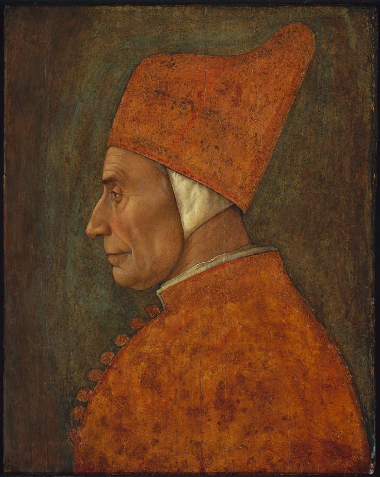 Portrait of a Doge, probably Pasquale Malipiero